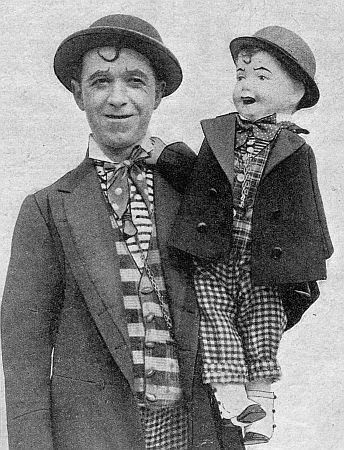 1916 publicity photo of comedian George Ovey as "merry Jerry" holding a merry Jerry doll